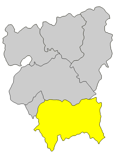 Location of Zijin County, Heyuan